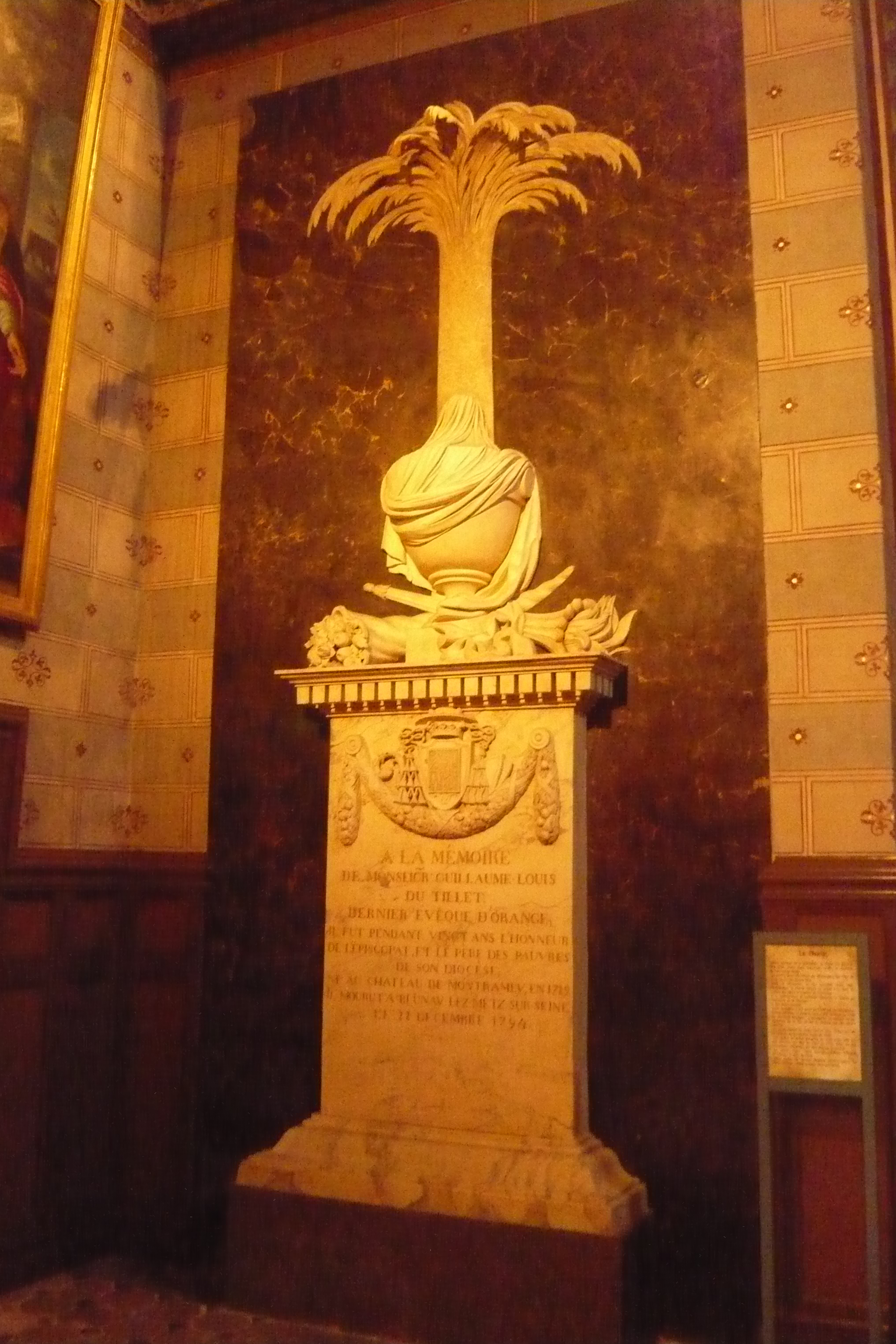 Grave of Guillaume Louis du Tillet, Cathédrale Notre-Dame-de-Nazareth d'Orange, France